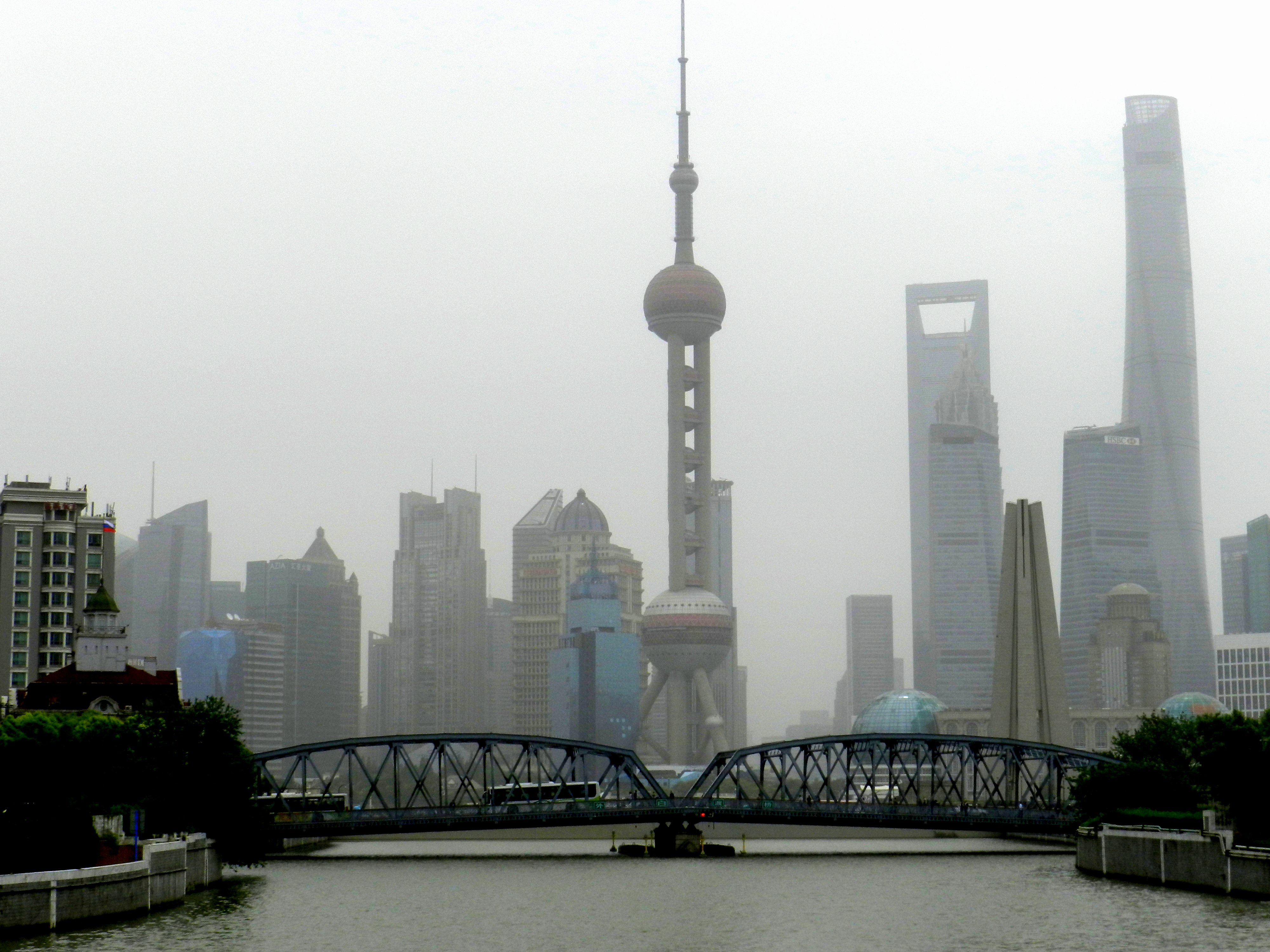 Waibaidu Bridge in Shanghai